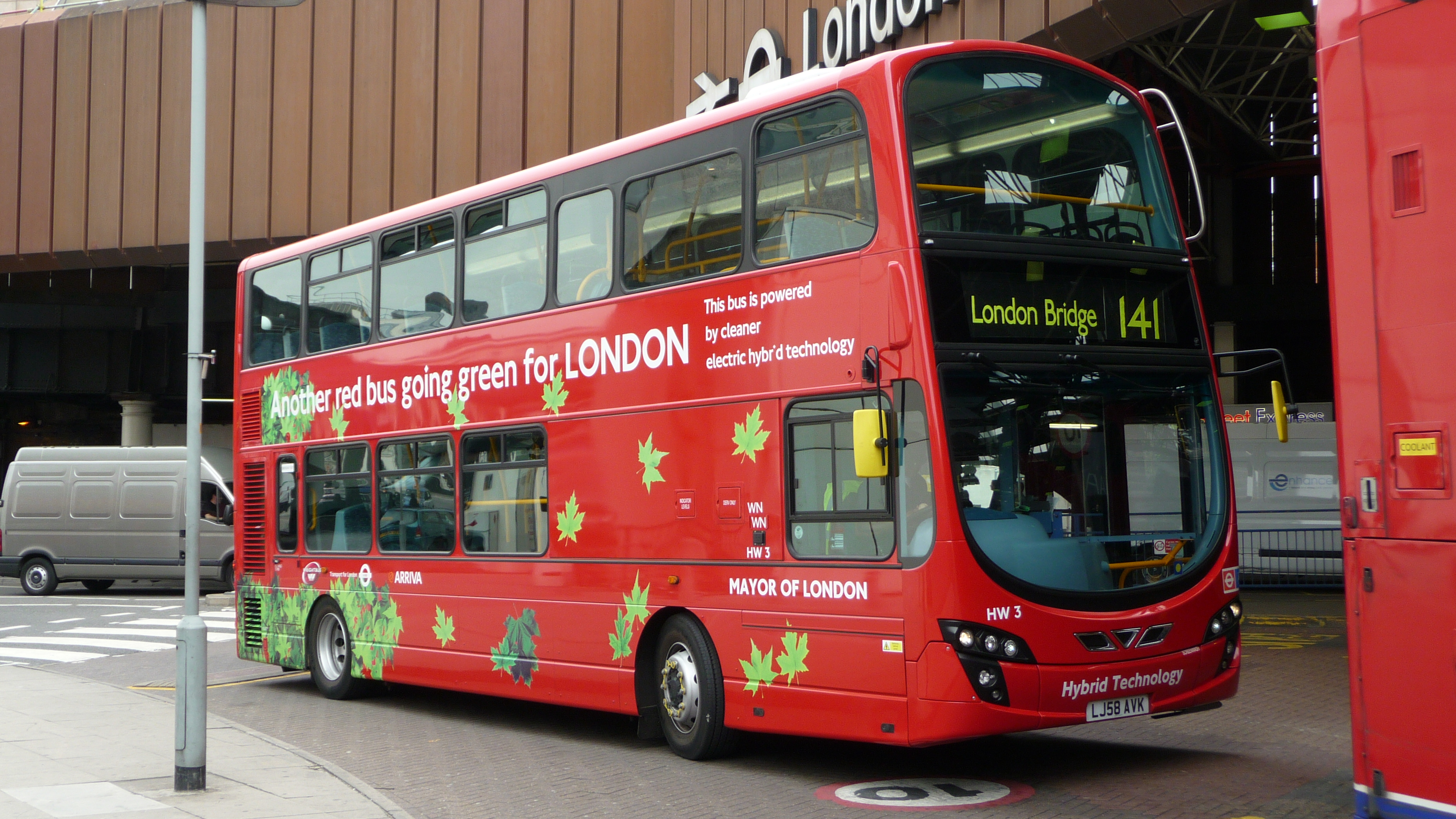 Arriva London North HW3 (LJ58 AVK), a Wright Gemini 2 HEV, at London Bridge railway station, on route 141. This is a hybrid vehicle, and is one of five of this type that Arriva London operate.